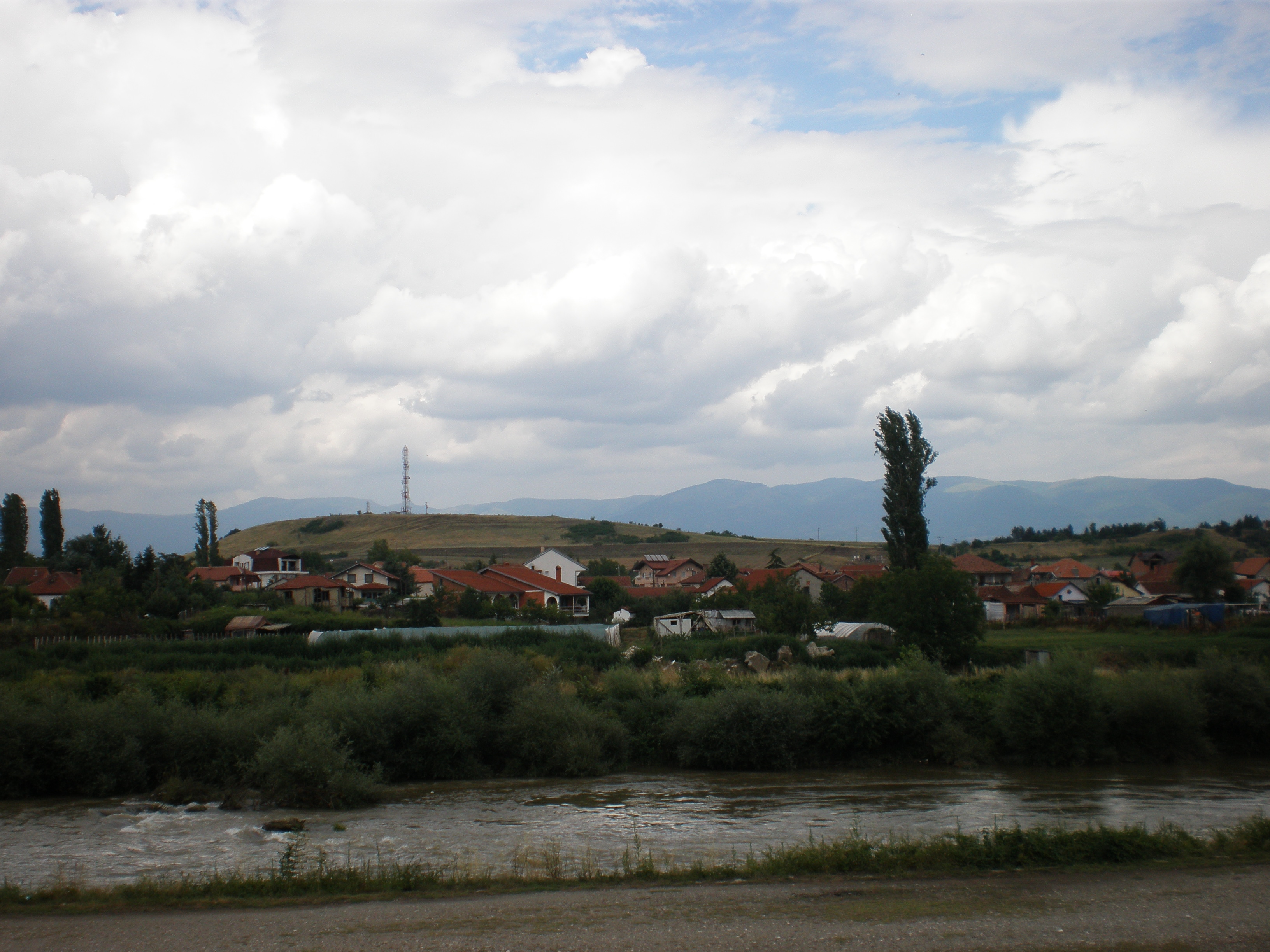 View of village of Zlokukjani from river Vardar bank